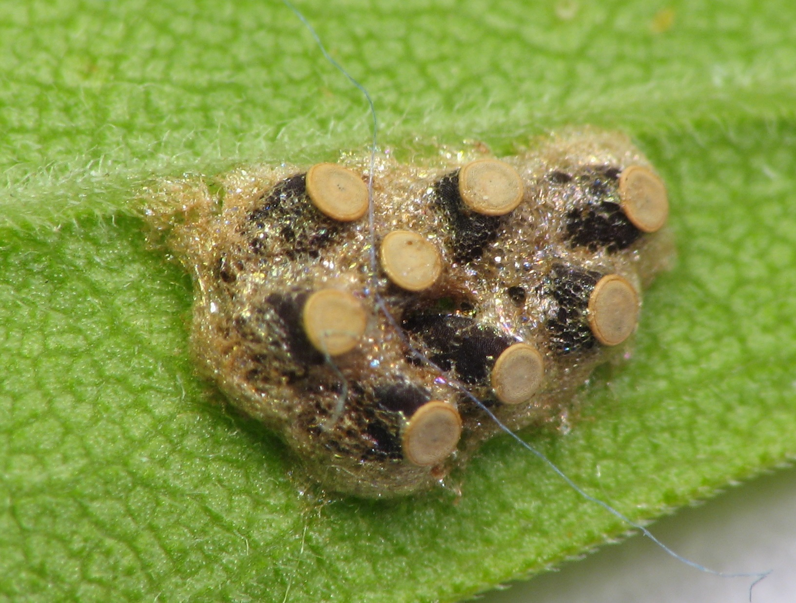 Eggs of Phymata (jagged ambush bug) on goldenrod. Size: 5 mm. Pennypack Restoration Trust, Montgomery County, Pennsylvania, USA.